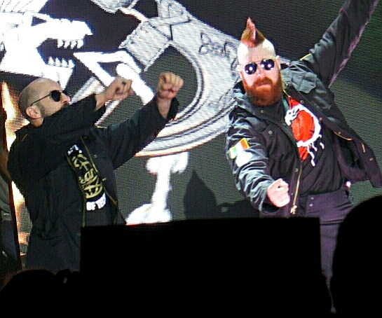 Jeff Hardy (c) & Matt Hardy (c) defeat Big Cass & Enzo Amore, Cesaro & Sheamus (in Triple Threat Match) Info on the match : WWE RAW Tag Team Title ( Le vendredi 12 mai, la WWE Live Tour fera escale au Country Hall a Liege pour le spectacle de catch de l'annee! Au programme: des duels impitoyables et des rencontres captivantes entre les meilleures equipes et les plus grands rivaux. )